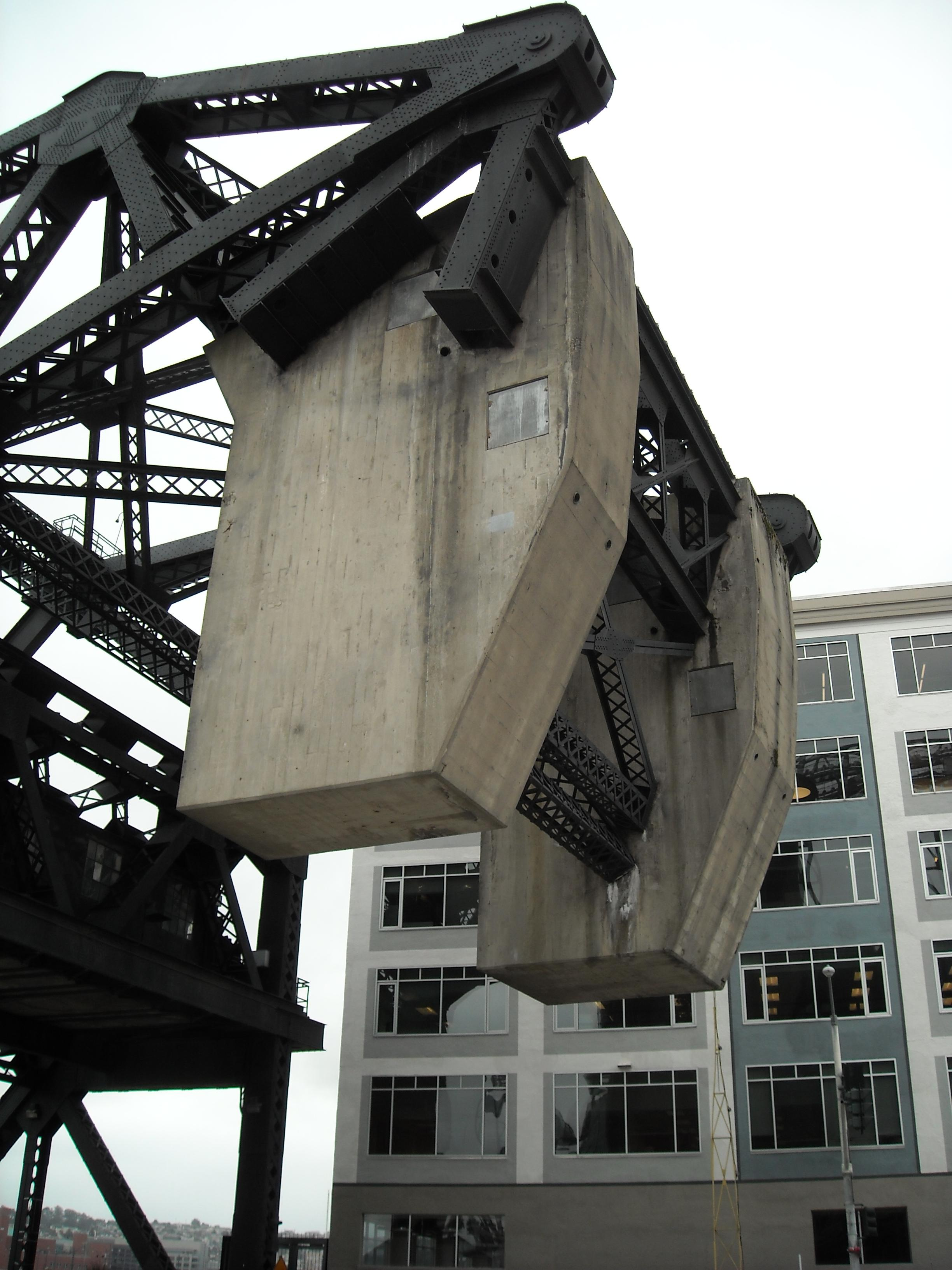 Counterweights of the 3rd Street Bridge − Lefty O'Doul Bridge, or China Basin Bridge — a bascule (draw) bridge in the China Basin district of San Francisco, California. Those counterweights are pretty massive.